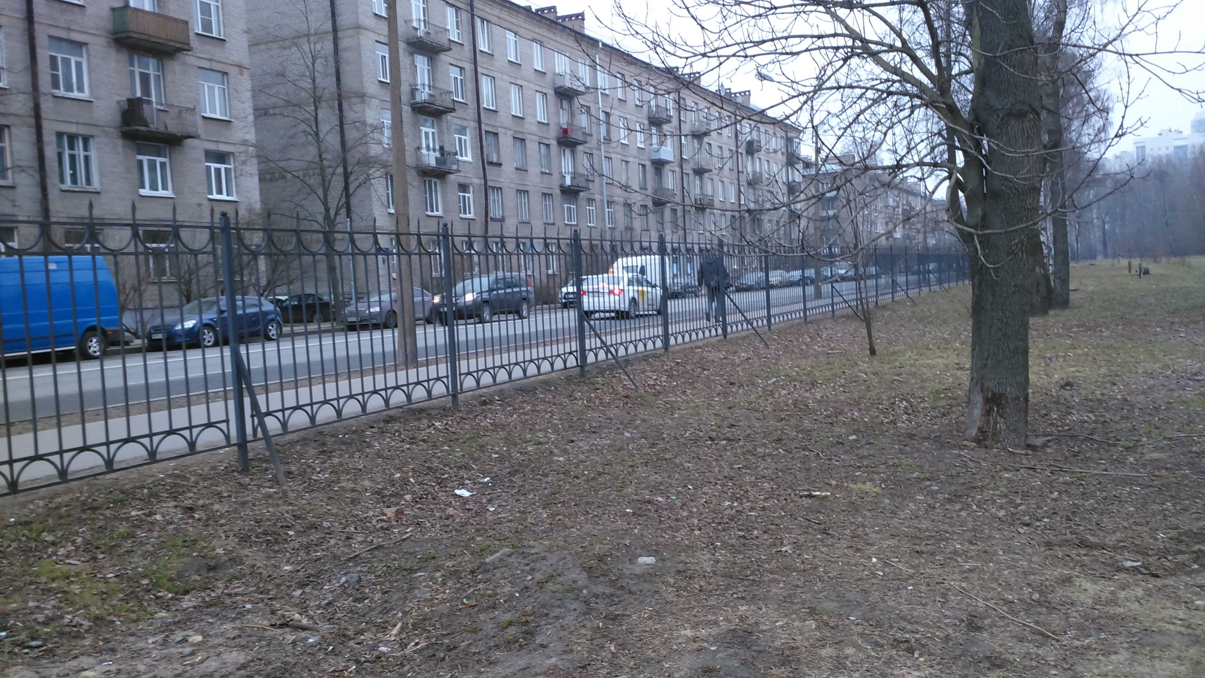 Bering Street and the Smolensk Orthodox Cemetery in St. Petersburg, Russia.